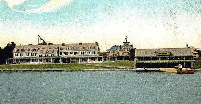 Saranac Inn, detail